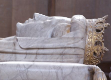 Margaret I of Denmark – detail of her famous tomb in Roskilde Cathedral (I know it's a bad file, but I thought it should be anywhere here) Own creation Summer 2005, Roskilde, Denmark